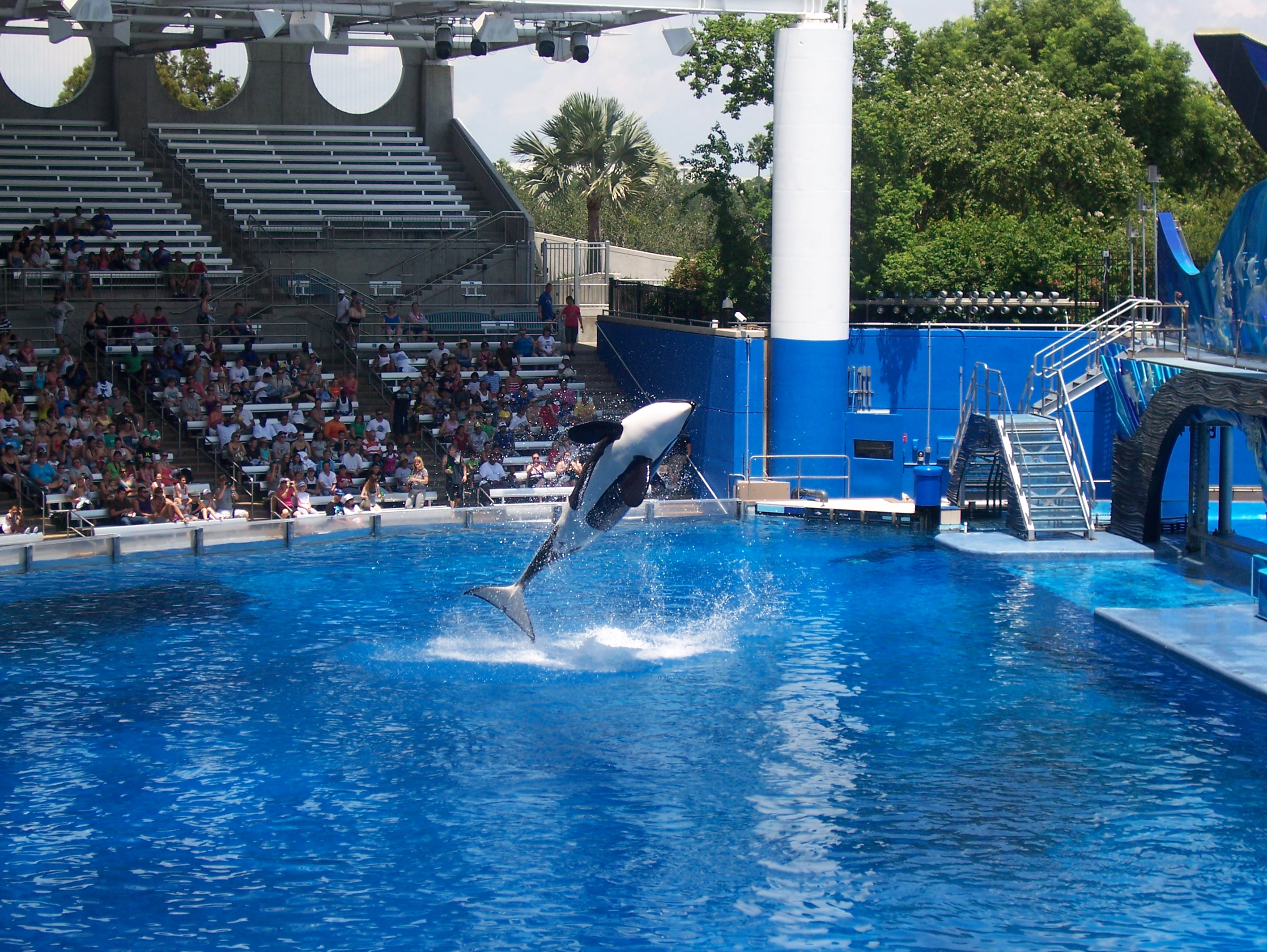 Kayla Opening the new show at Seaworld Orlando One Ocean.